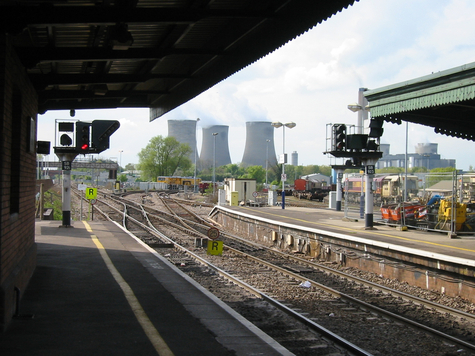 Didcot, Oxfordshire, UK, grew up around the Great Western Railway. It is a rail junction and commuter town. This is the view of the power station from Platform 3 of Didcot Parkway station. Picture taken by wurzeller on 10 May 2005 and hereby released under the terms of the GFDL.